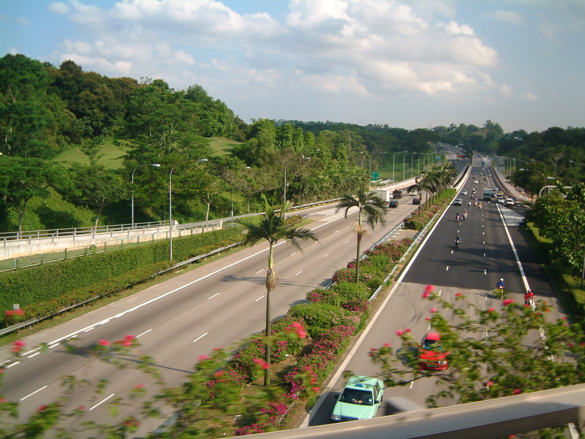 The Bukit Timah Expressway, a major arterial road in northern/central Singapore. View is looking South (to PIE.)